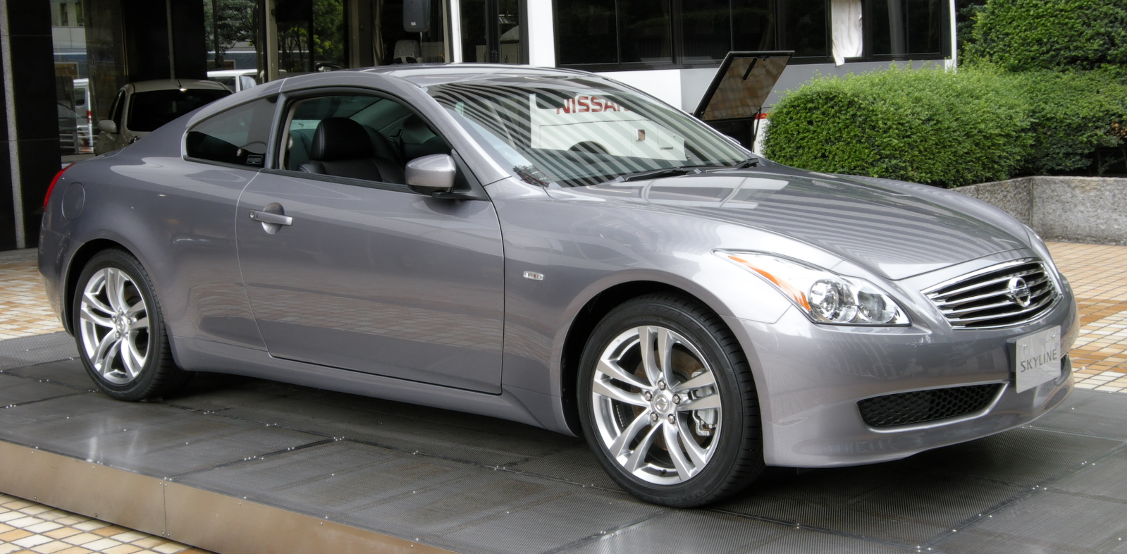 2007 Nissan V36 Skyline Coupe photographed in Nissan Gallery (Chuo, Tokyo)